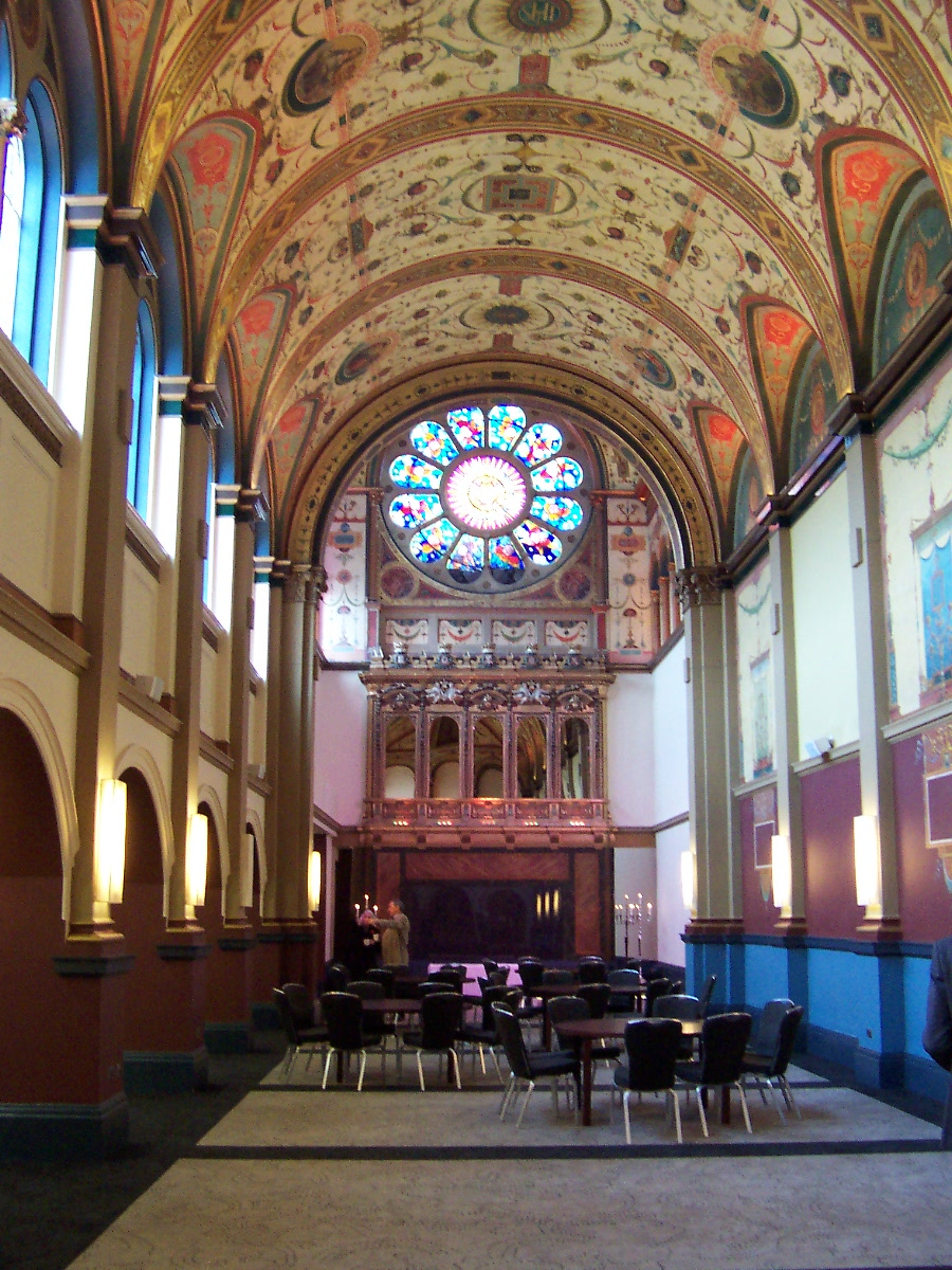 The chapel of Beaumont College now used as a function space.